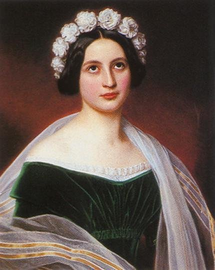 Portrait of Josepha Conti (1823-1881)